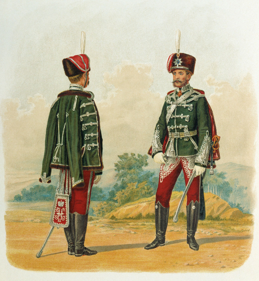 Uniform of Husar Grodno Regiment. 1895 Album.